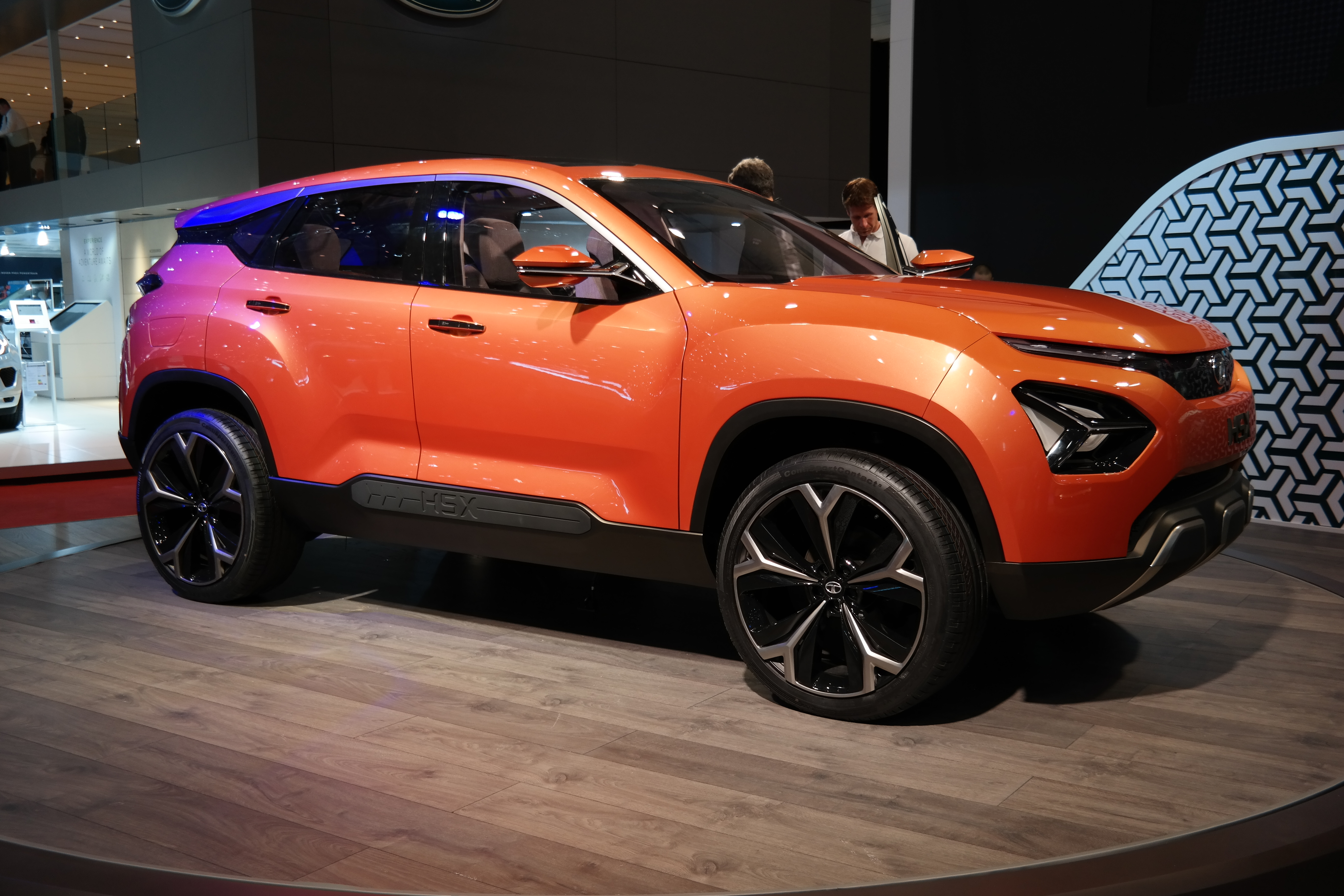 Geneva Motor Show 2018 (photo taken on the first press day)